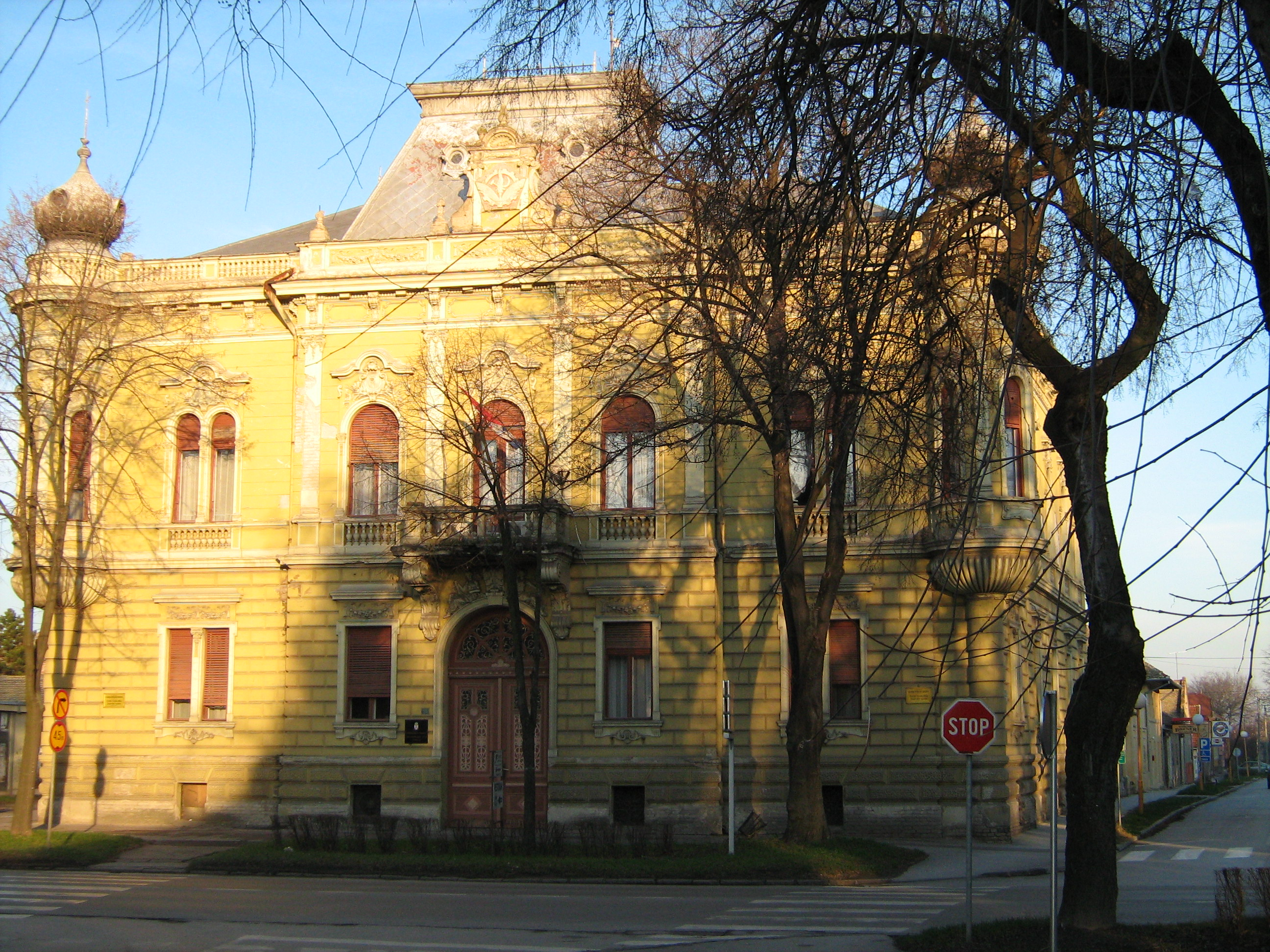 Sombor (Serbia): Kronić Palace, 1906